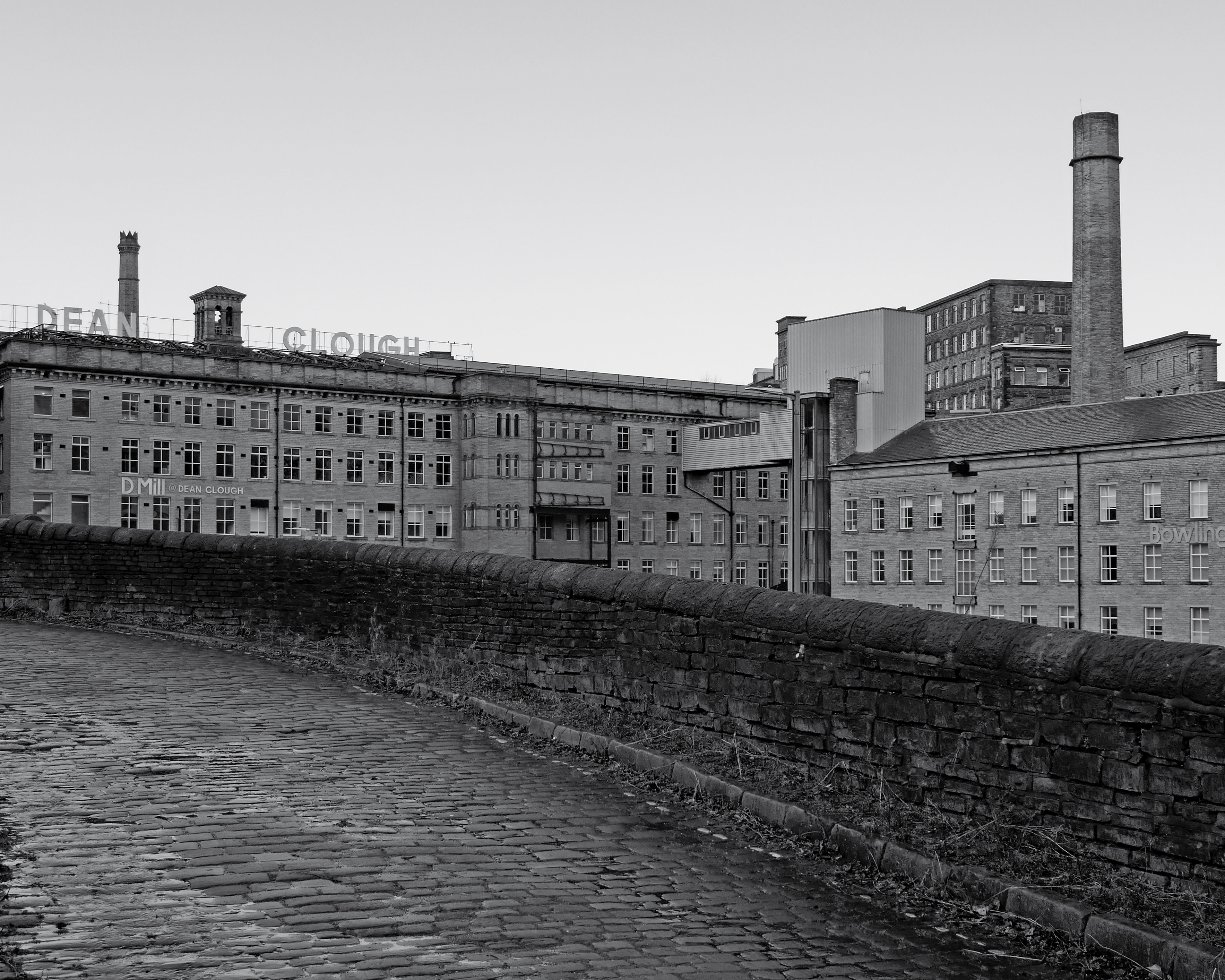 Dean Clough Mill, Halifax, West Yorkshire. Taken by Flickr user: Tim Green aka atouch on the afternoon of Sunday the 16th of February 2020.